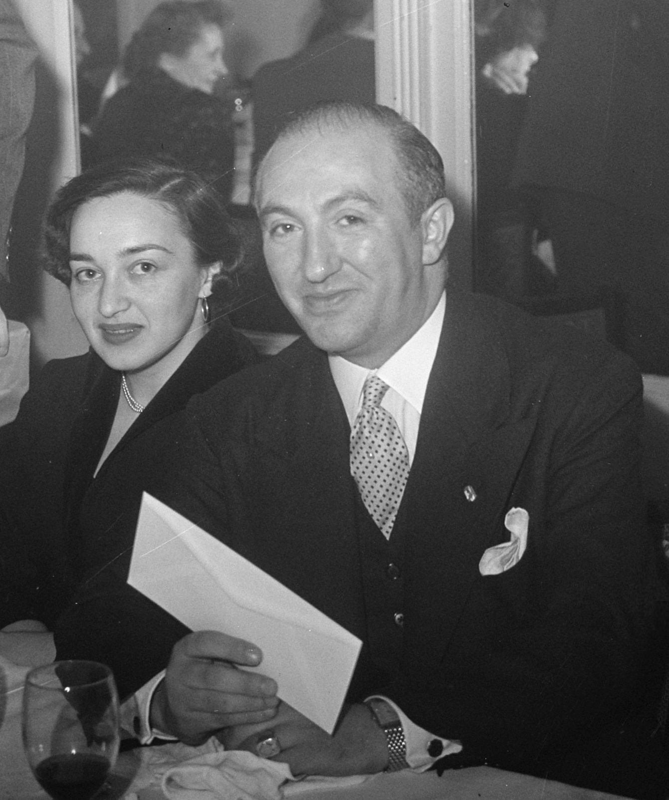 Najdorf with spouse at the closing banquet of Amsterdam 1950 international chess tournament